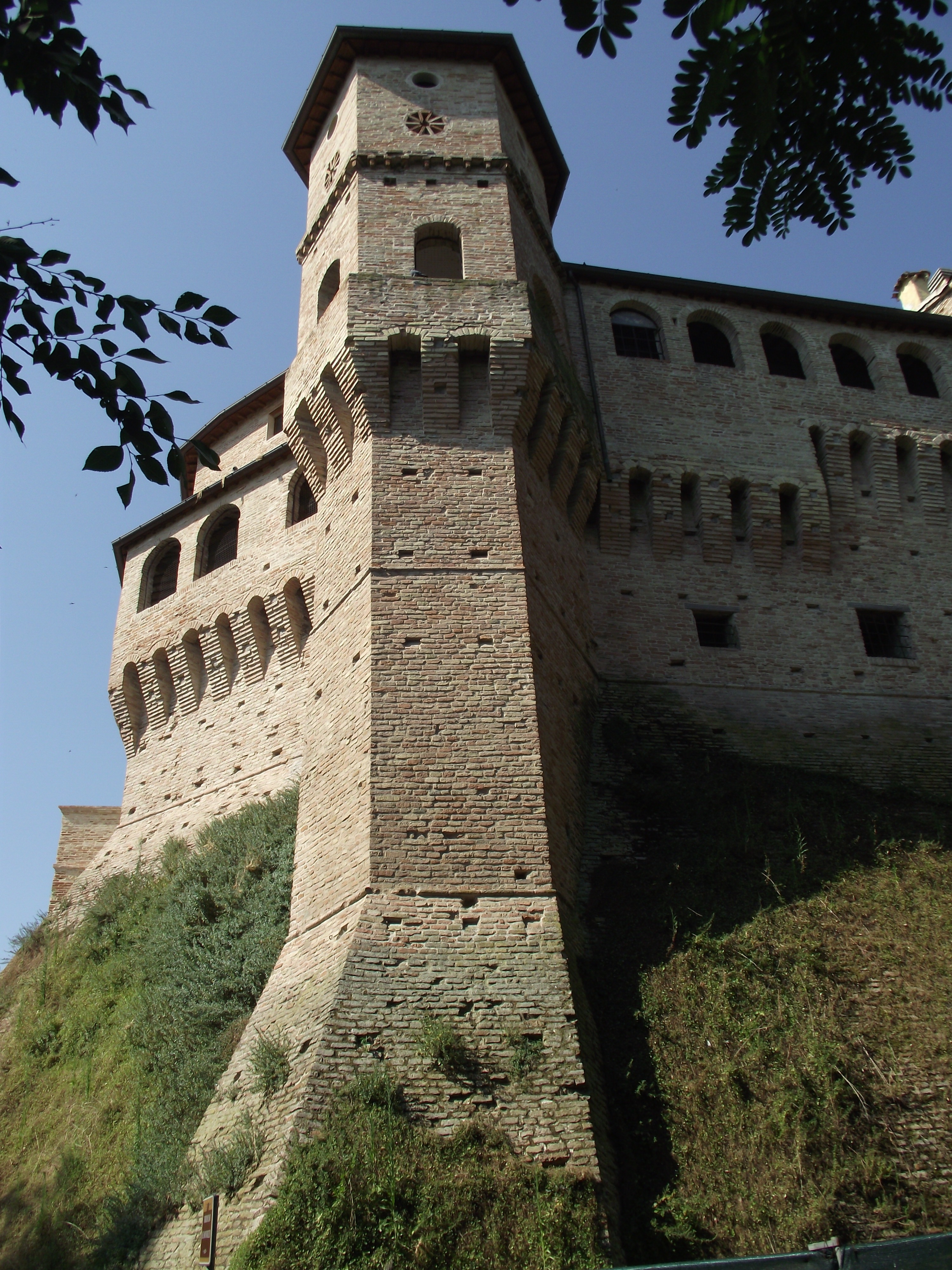 Jesi, Mount Tower, XIV-XV Century